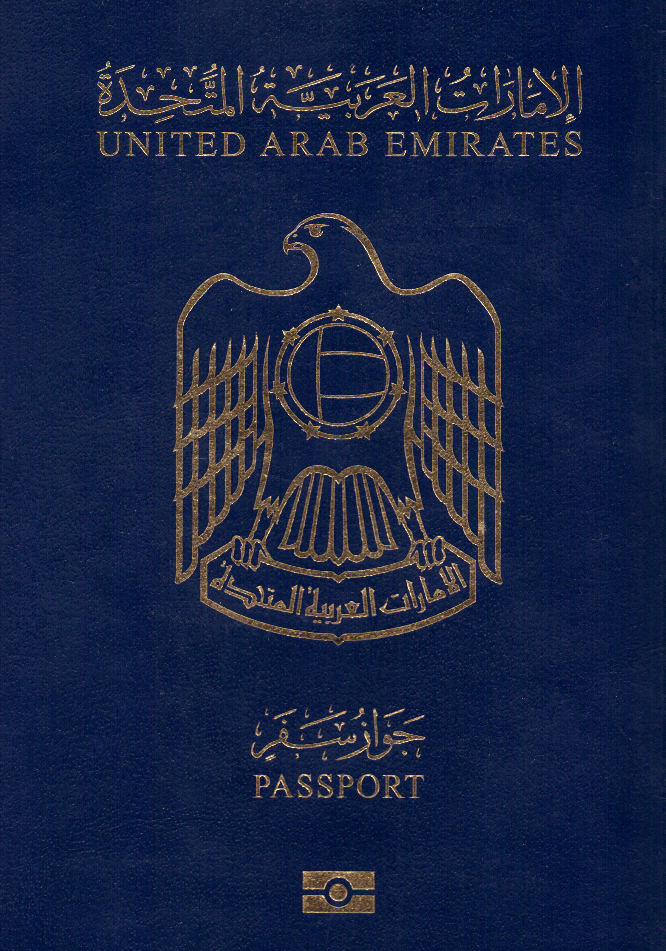 The passport cover of the United Arab Emirates.